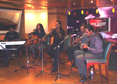 LBG The Rock Band Playing In Matchpoint In Taj Hotel,Chennai,India